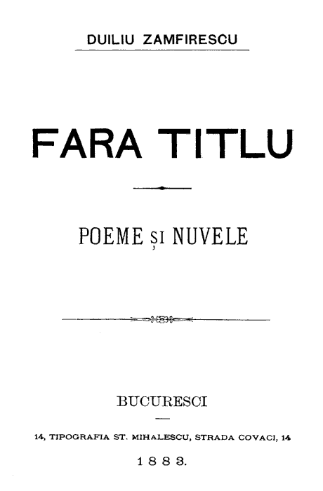 Duiliu Zamfirescu - First page of Fără titlu, published by Tipografia St. Mihailescu, Strada Covaci, 14 in 1883.